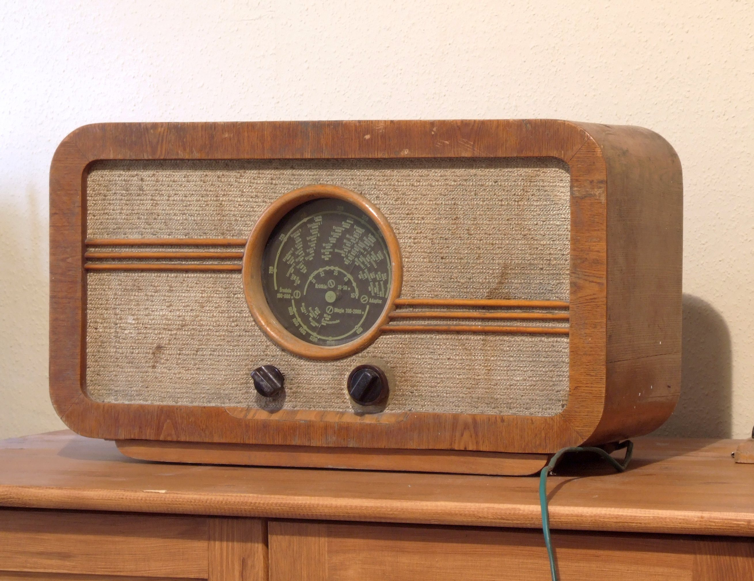 Mazur Lux, Polish radio from 1950's